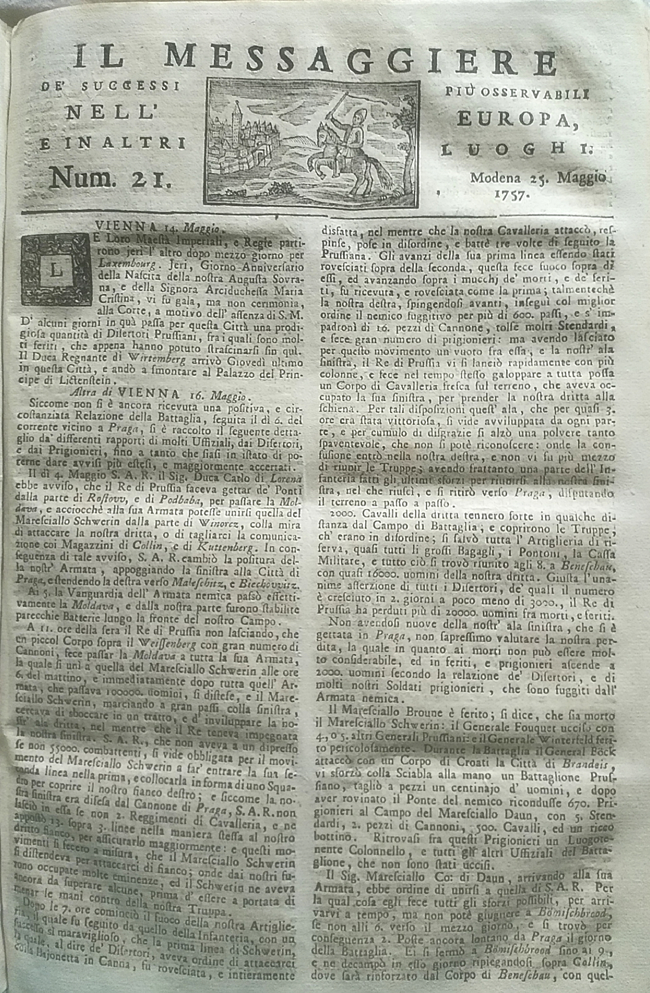 Il Messaggiere - Newspaper published in Modena - number 21 dated 25 maggio 1757